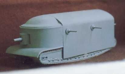 Model (1/48) of Flying Elephant tank prototype in the Bovington Tank Museum.